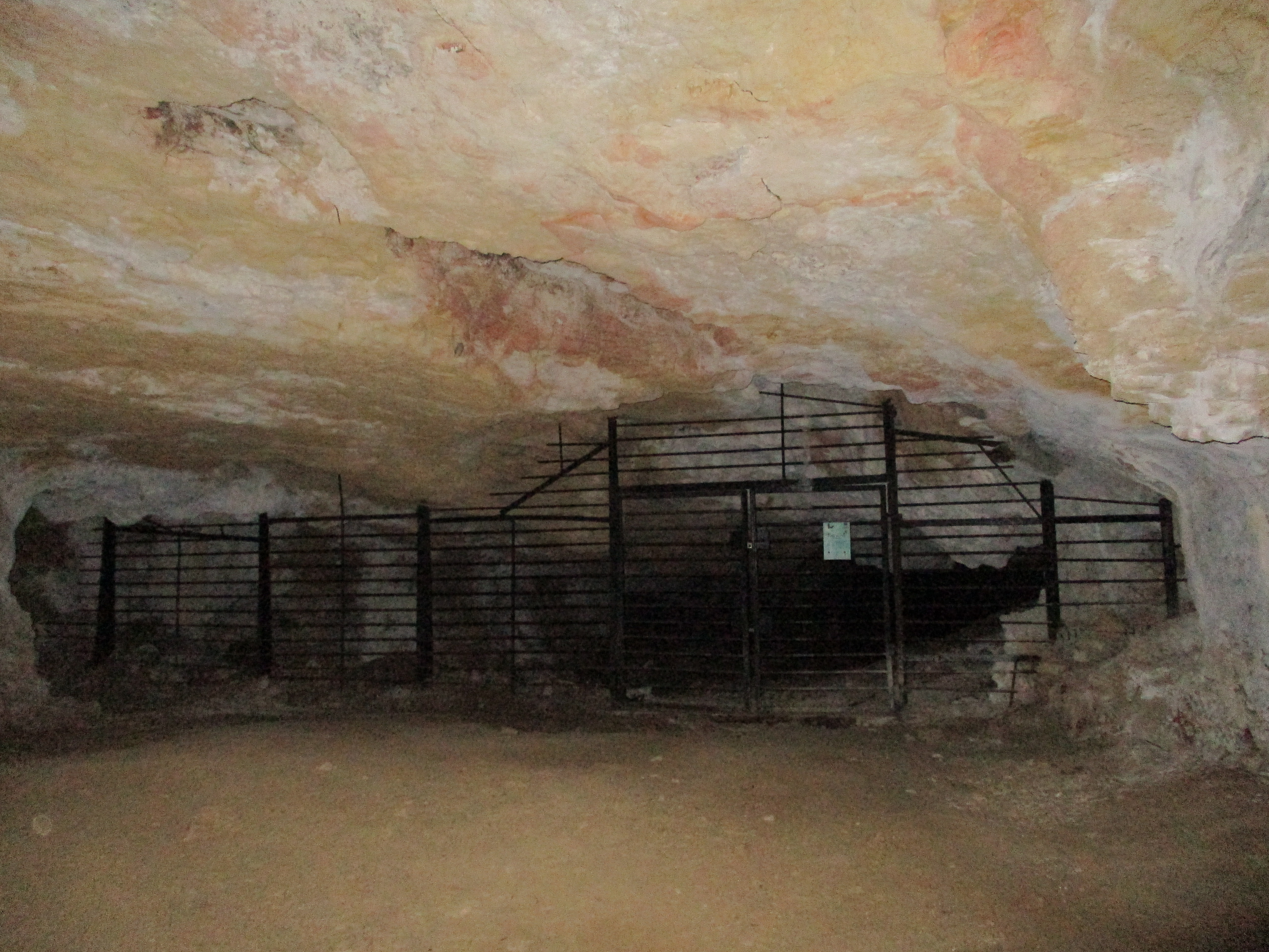 Grotte des Fées, prehistoric site of Arcy-sur-Cure caves, Yonne, Burgundy, France.